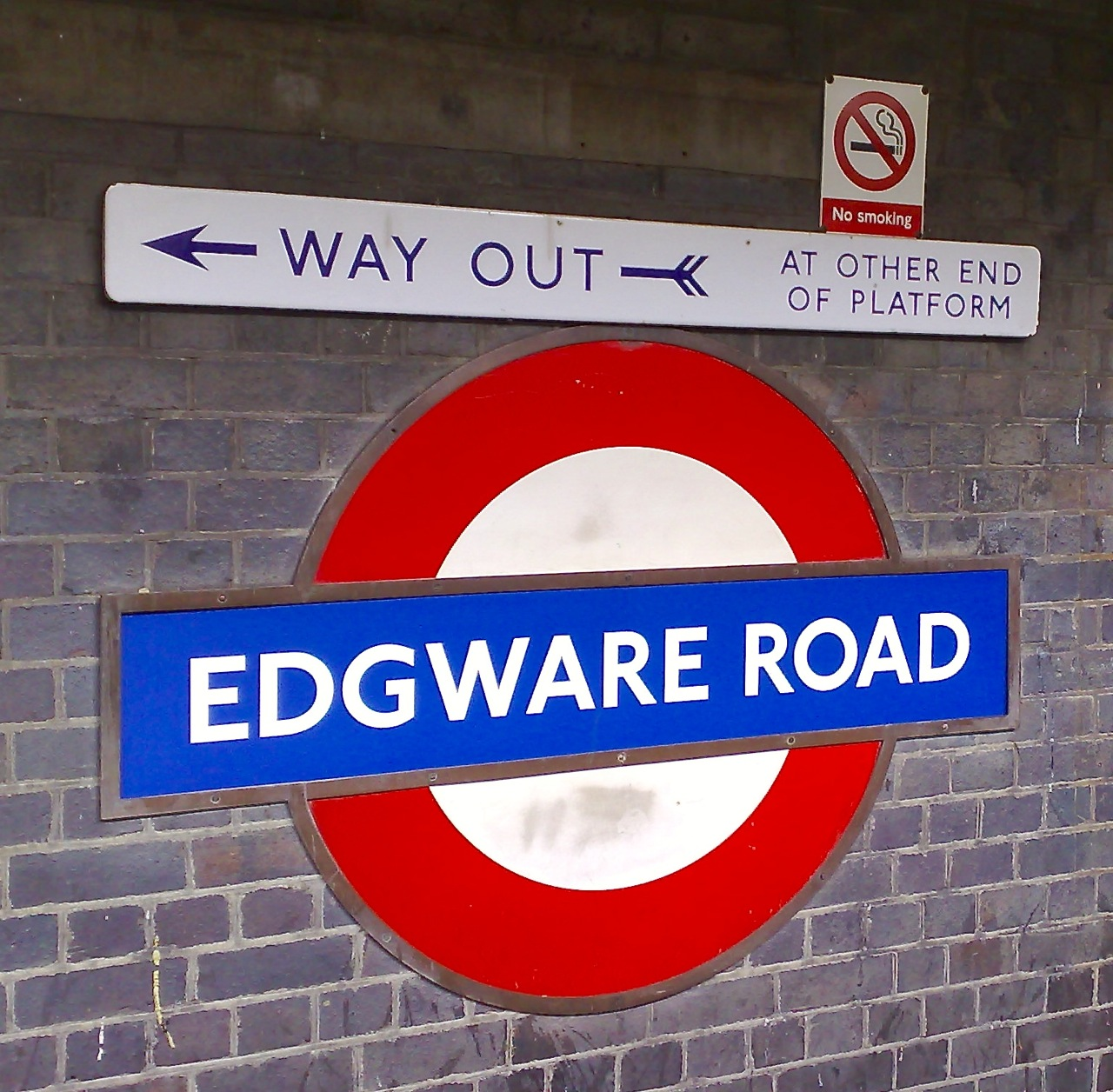 London Underground